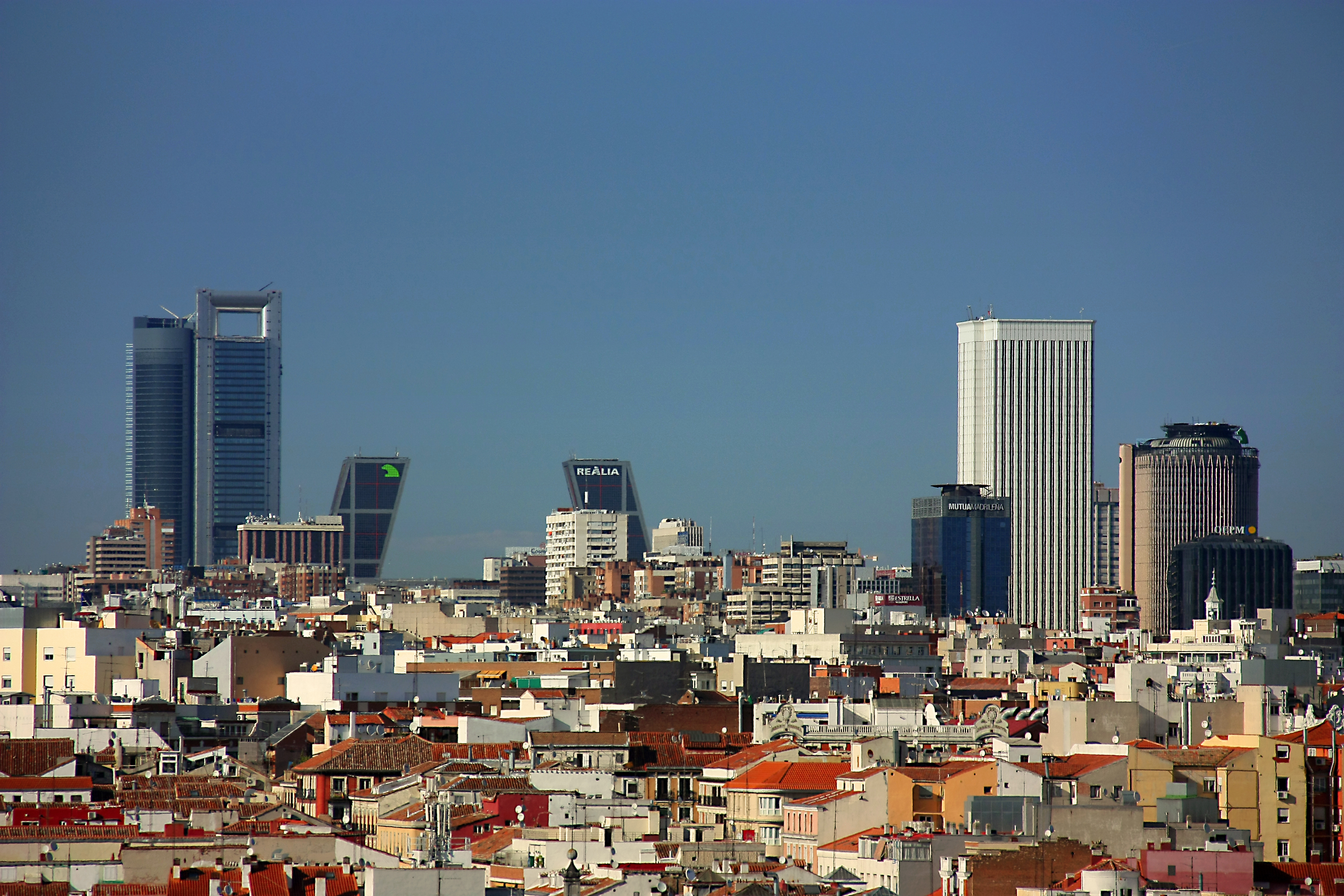 View of Madrid (Spain), from Edificio Carrión (a downtown building) to the north. At the left, CTBA buildings. At the right, AZCA business park, and in it, Torre Picasso (white skyscraper).